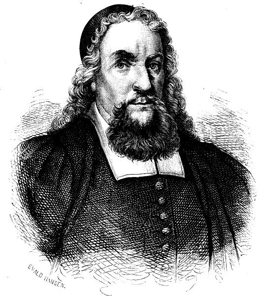 Portrait of Swedish arch bishop Haquin Spegel.